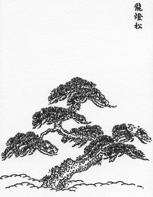 Ryuto-matsu (竜燈松) from the Ryōgoku sanjūsan-sho meisho zue (両国三十三所名所図会)